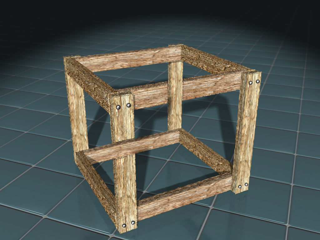 The impossible crate (optical illusion) view 1